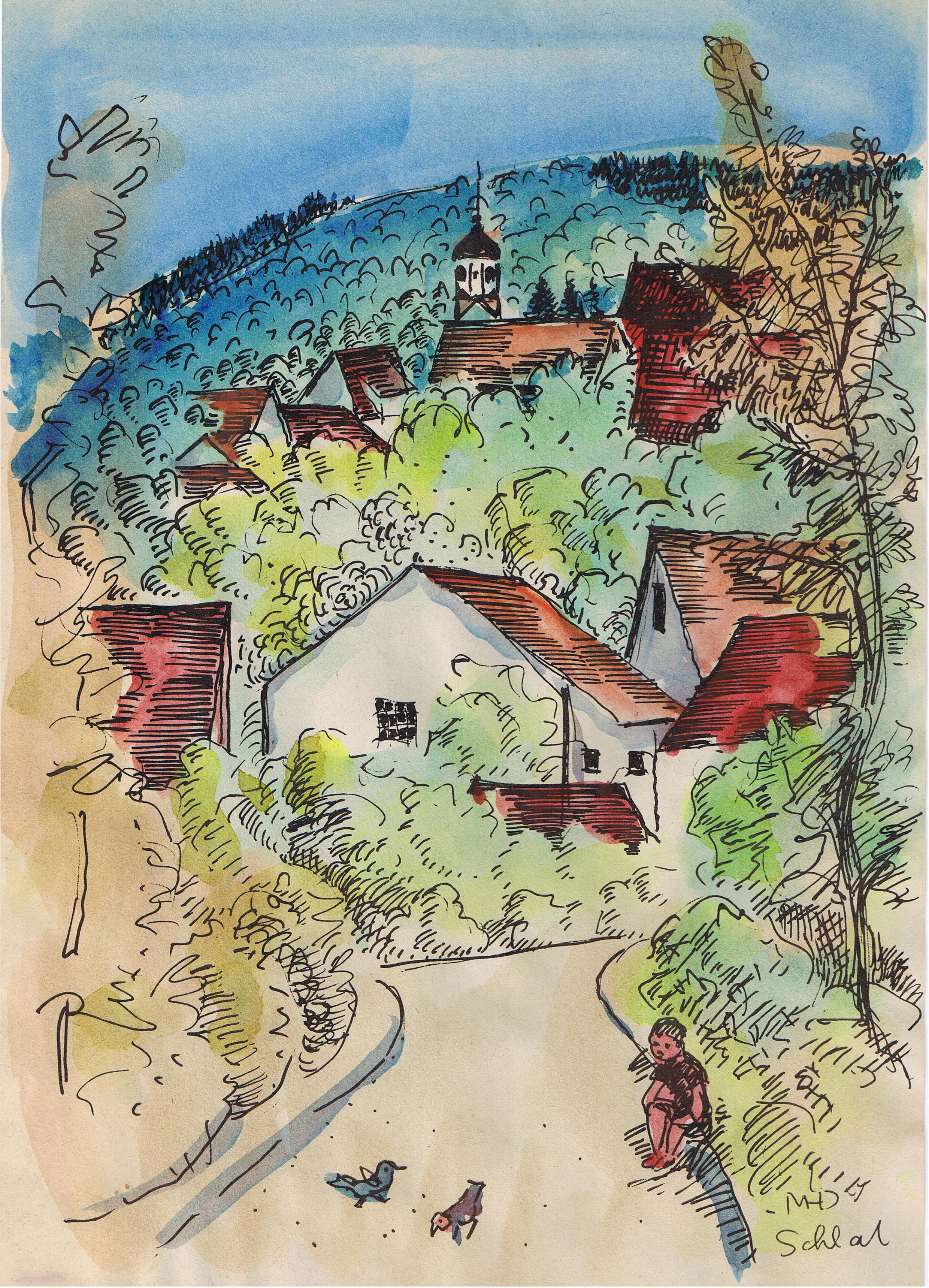 Schlat, Water Color, 20 x 30 cm